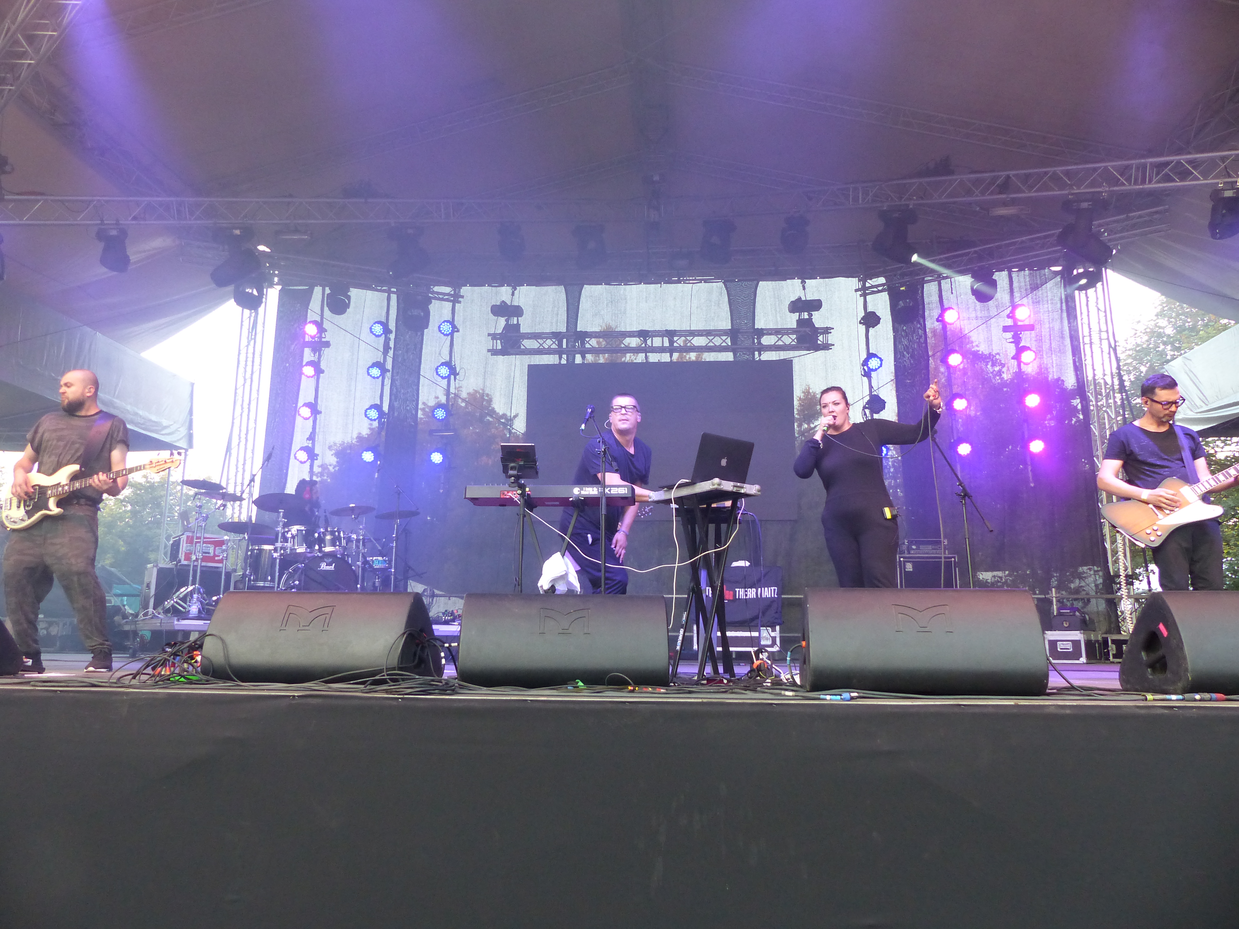 Europe Stage, Sziget Festival. Taken on the 13th of August, 2016. Therr Maitz: " Anyone can offer an idea, then they just need to realize, and here already includes managerial mechanism: all should work. Are creative people always so: they used to gush with ideas, but when it comes to their implementation, the problems start. To implement the idea of good, one hundred percent – even more difficult. So you need a clear understanding of who manages the process who is responsible. In Therr Maitz I carry it, but otherwise I’m open to various proposals and, by the way, this is also one of the important qualities for the team leader to be able sometimes to give other people ideas as their own (laughs)" Source: The leader Therr Maitz Anton Belyaev: “the Format is evil”